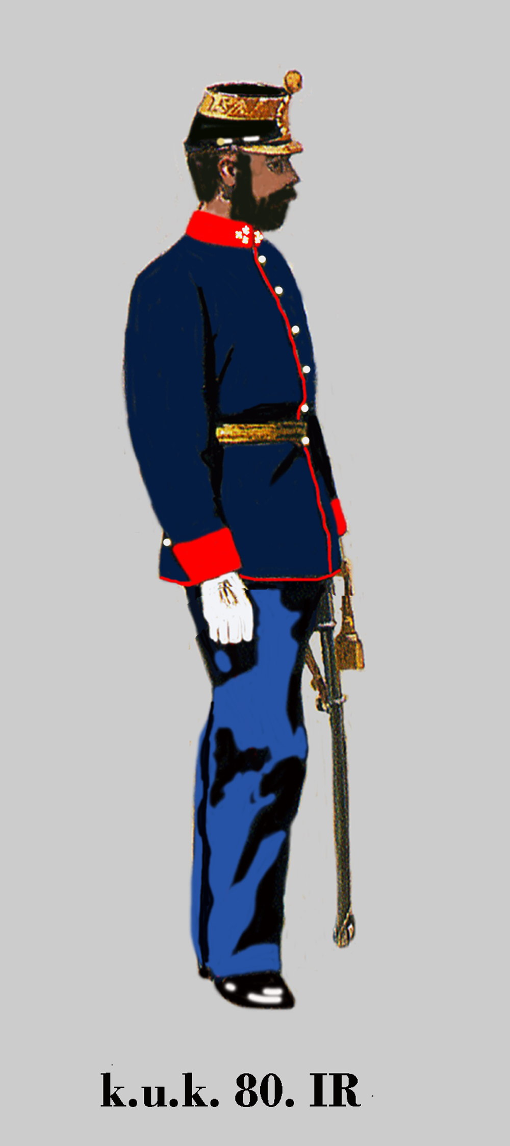 Captain of the Austria-Hungarian (k.u.k.). 80th german Infantry Regiment in Parade dress 1914